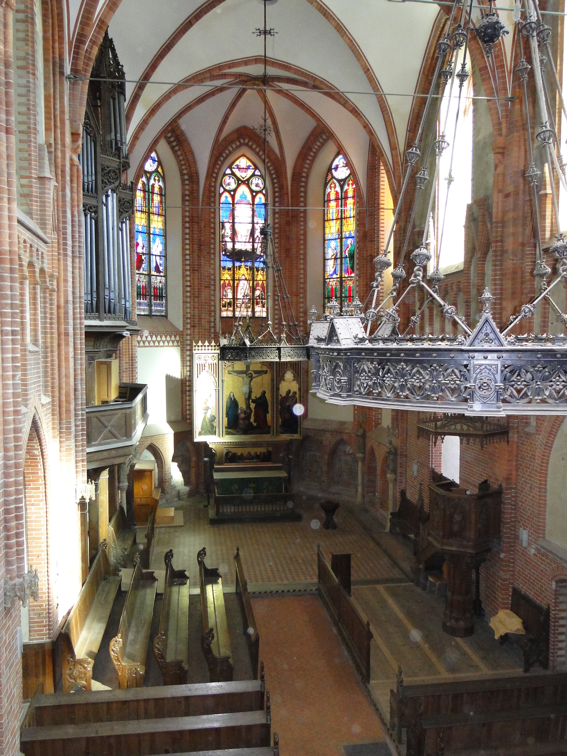 Interiors of church in Monastery in Dobbertin, district Parchim, Mecklenburg-Vorpommern, Germany